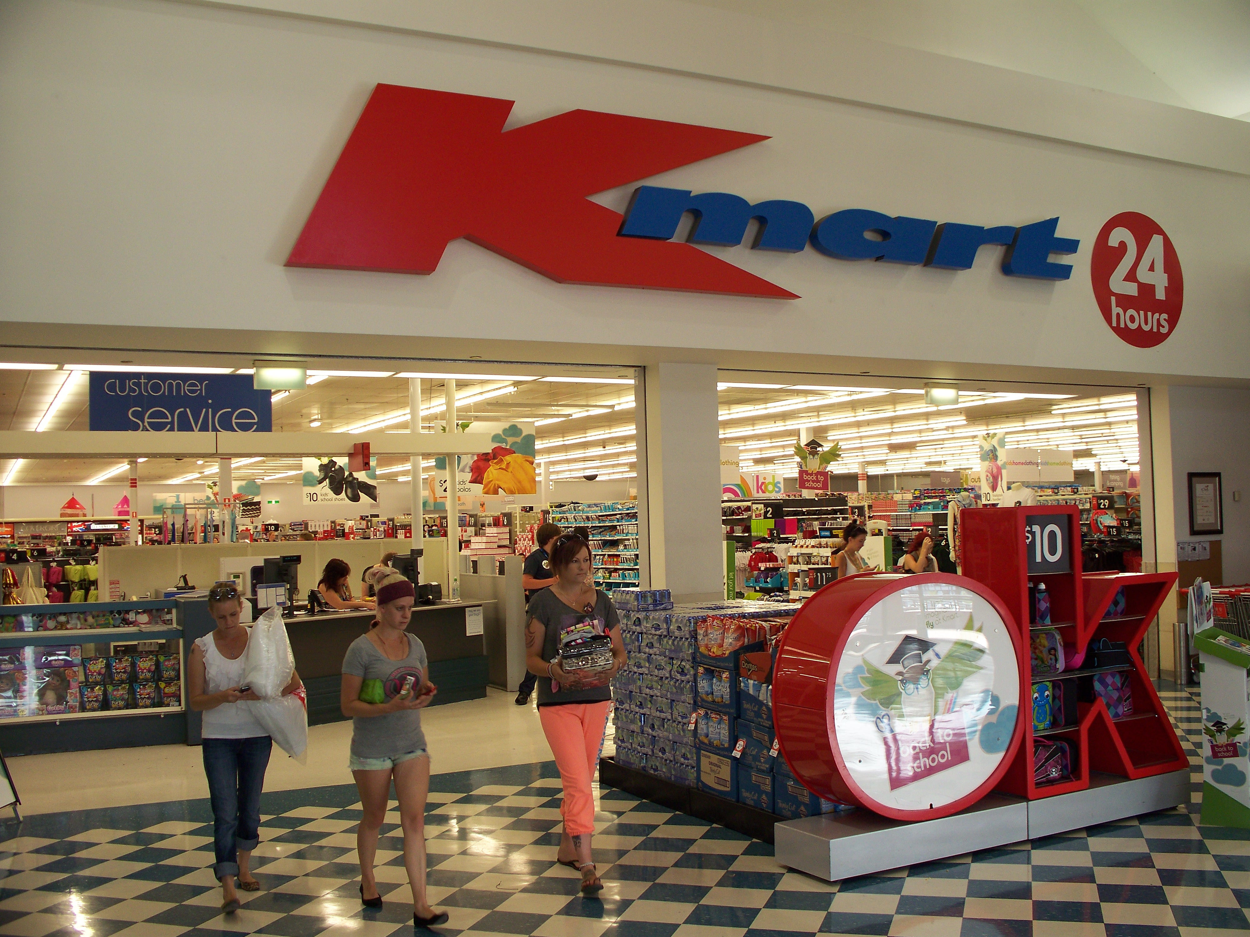 A 24-hour Kmart store within New Town Plaza, New Town, an inner-suburb of Hobart.